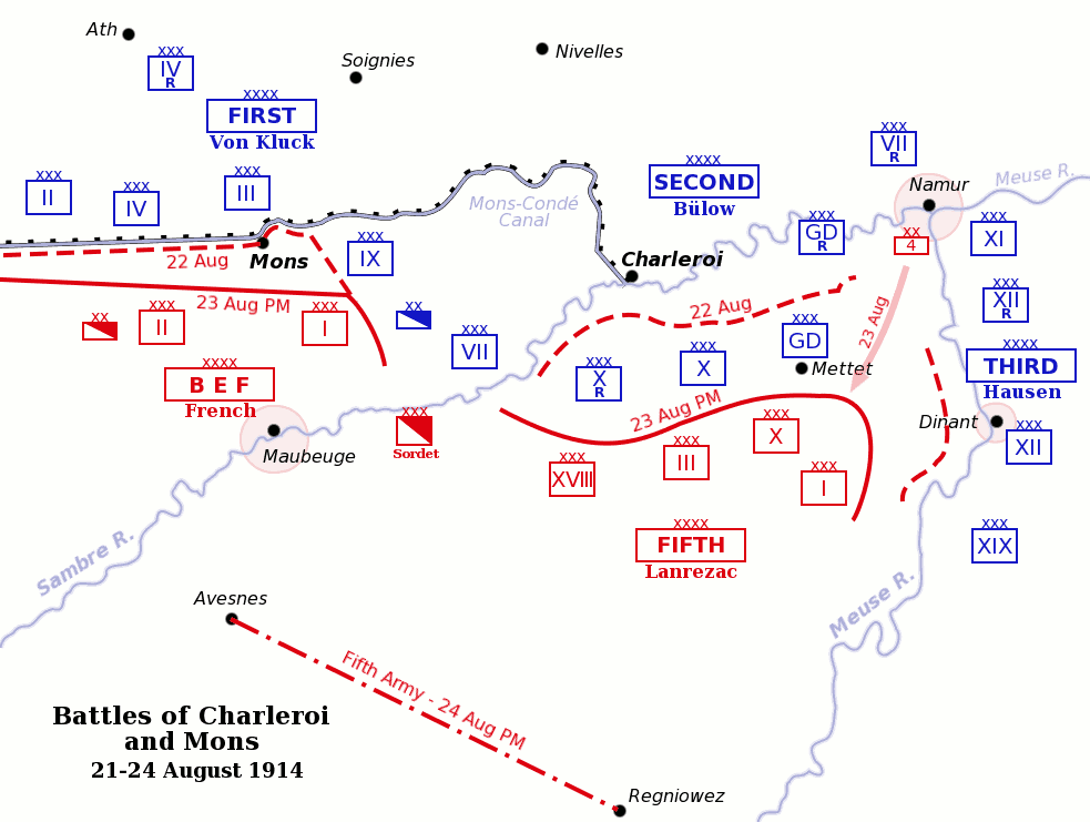 Map of the Battles of Charleroi and Mons, southern Belgium, during the Battle of the Frontiers, 21-24 August, 1914. French, British and Belgian units are shown in red, German units are shown in blue. Fortress towns are marked with a shaded red circle.